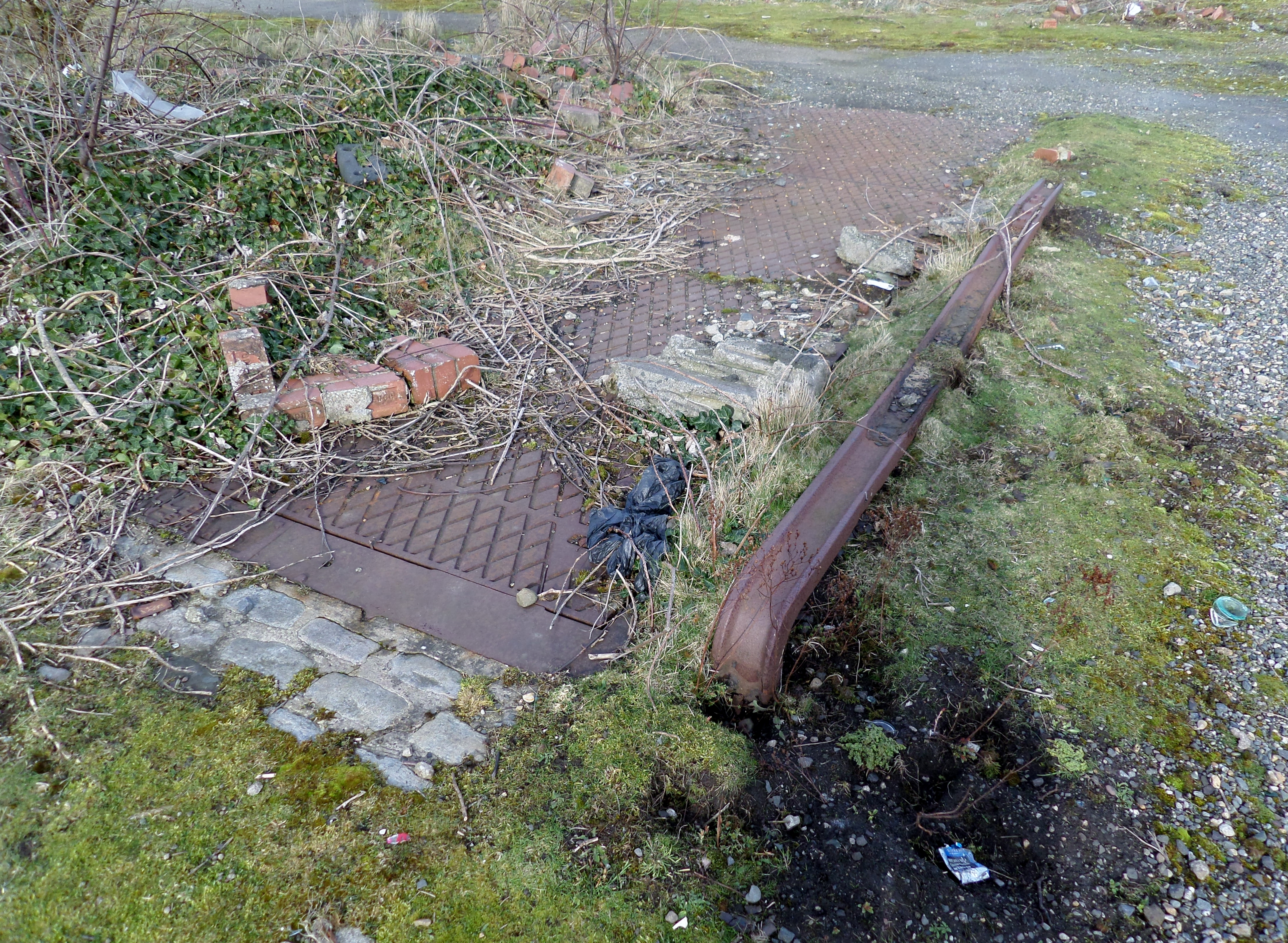 Old Girvan Goods Station, South Ayrshire, Scotland. Old weighbridge.